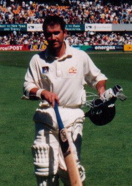 Justin Lee Langer, Australian Test cricketer, photographed at the Sydney Cricket Ground